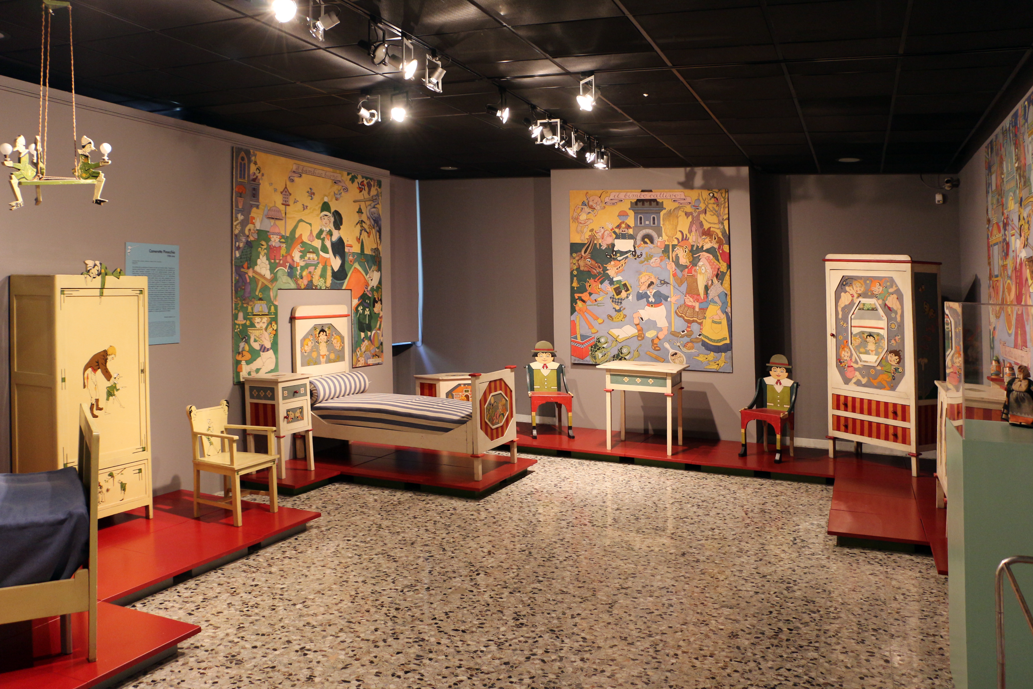 Wolfsoniana